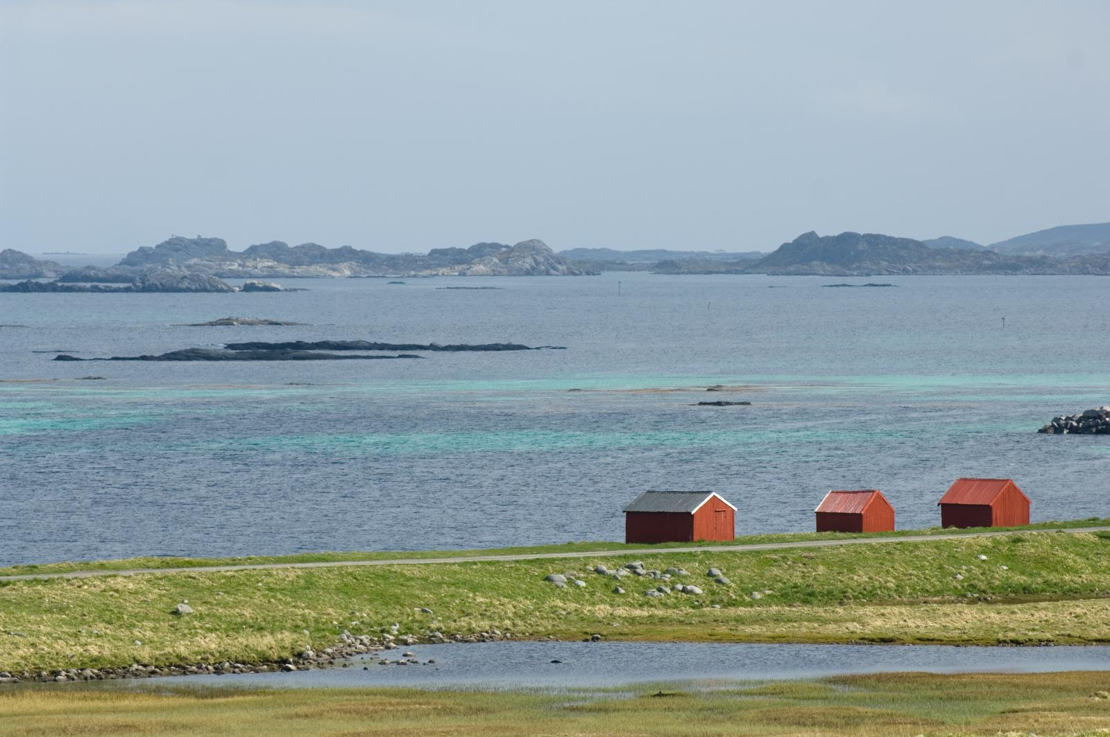 Boathouses in Eggum in Vestvågøy, Lofoten, Norway